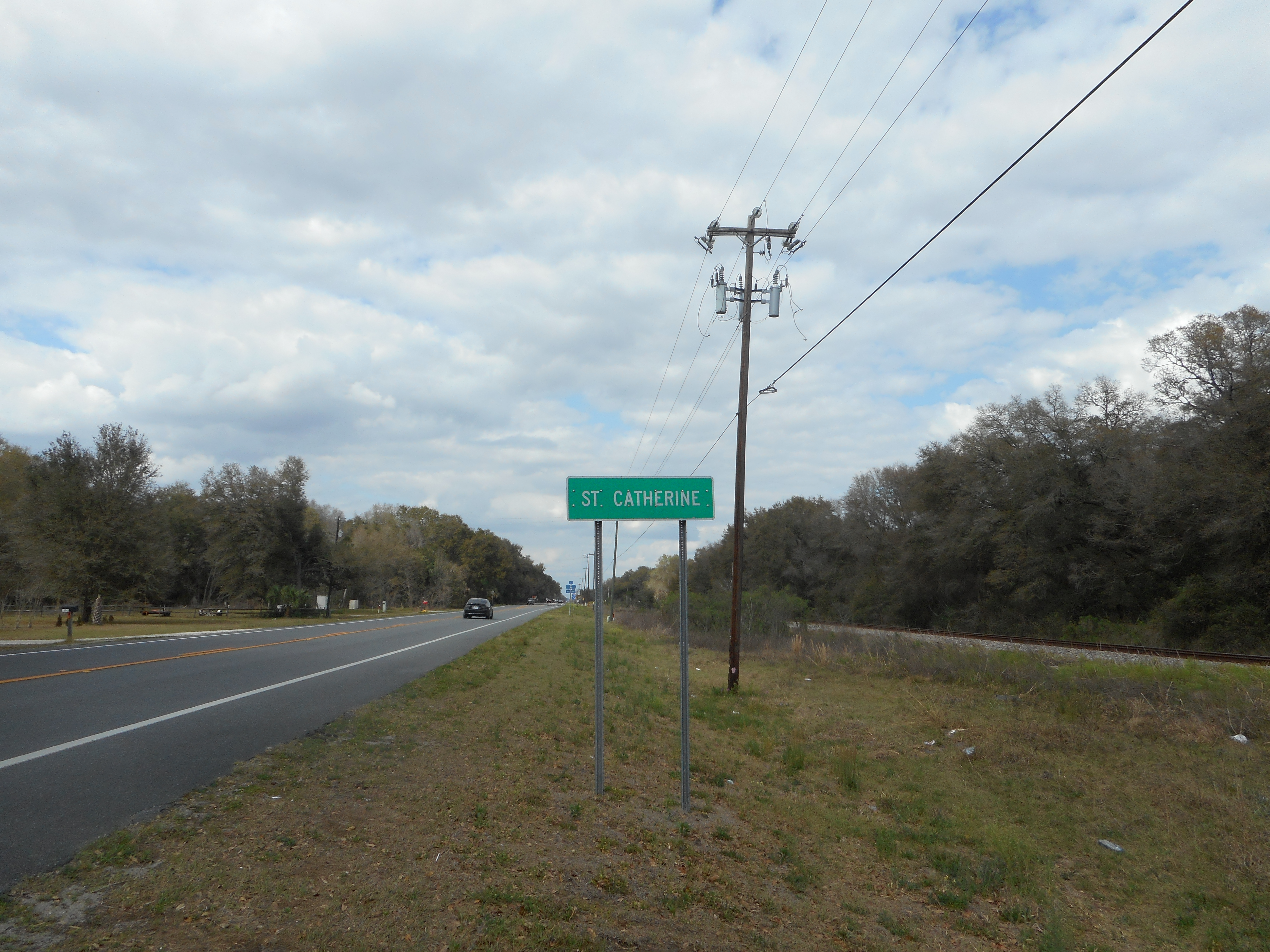 Northbound U.S. Route 301 as it enters the unincorporated community of St. Catherine, in Sumter County, Florida.